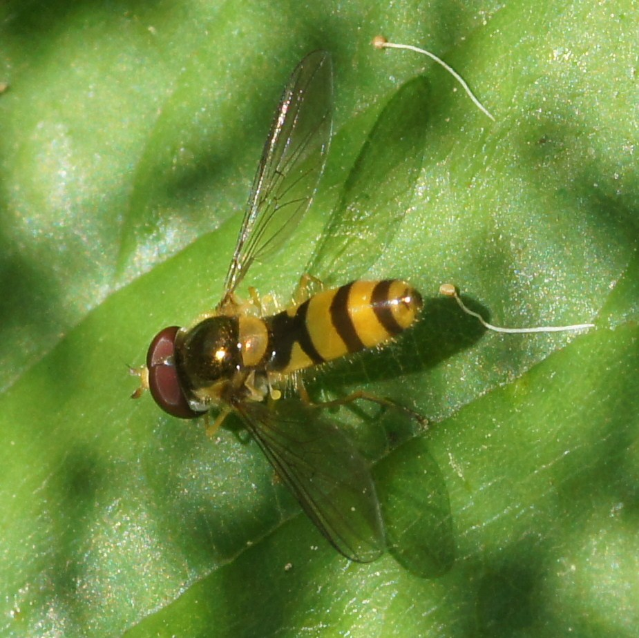 Fagisyrphus cinctus (male). Synonym Meligramma cincta. Picture taken in Skåne, Sweden.